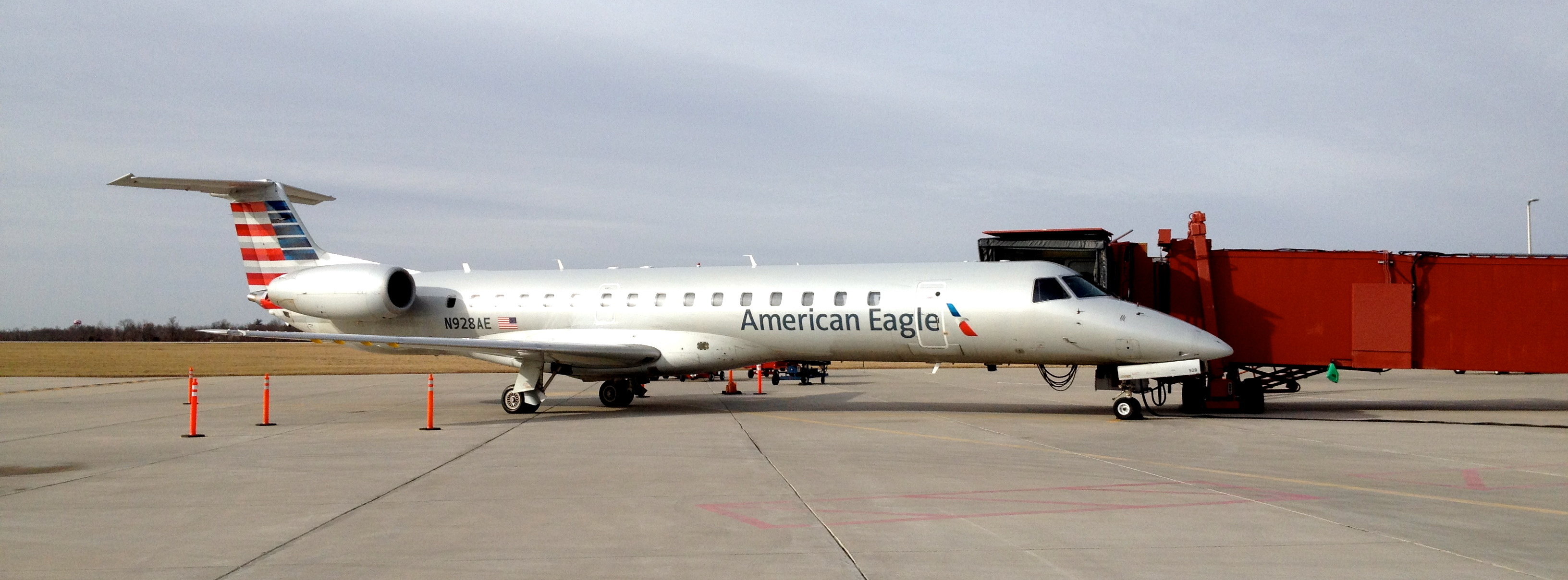 An American Eagle Embraer ERJ-145 parked at gate 1.